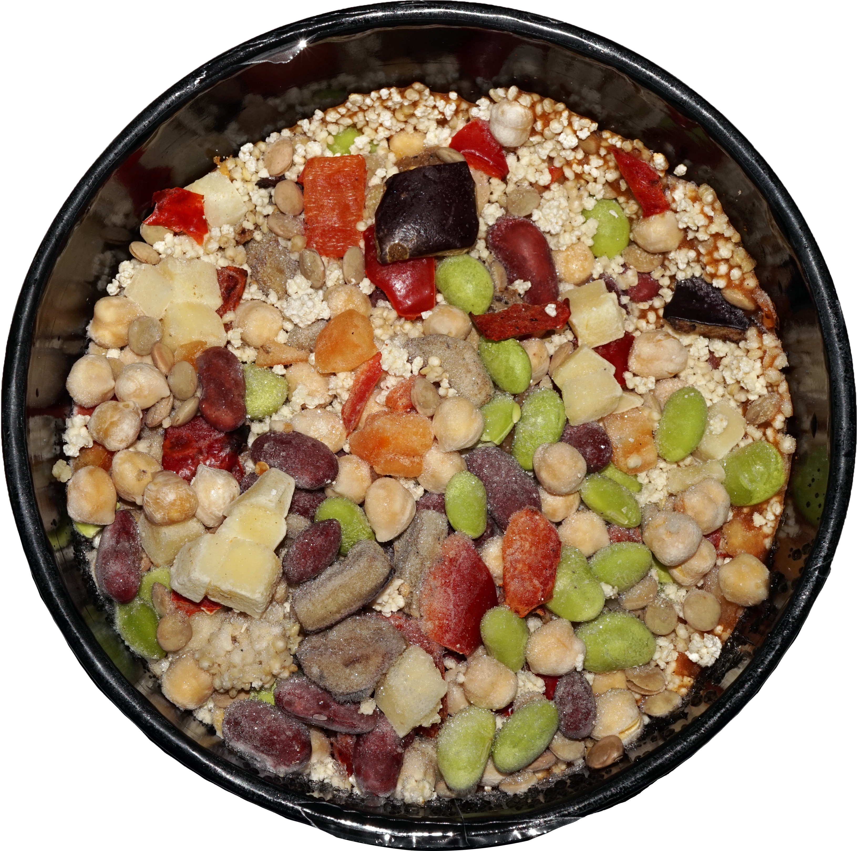 Frozen meal by Findus. Including chickbeans, beans and lentils.